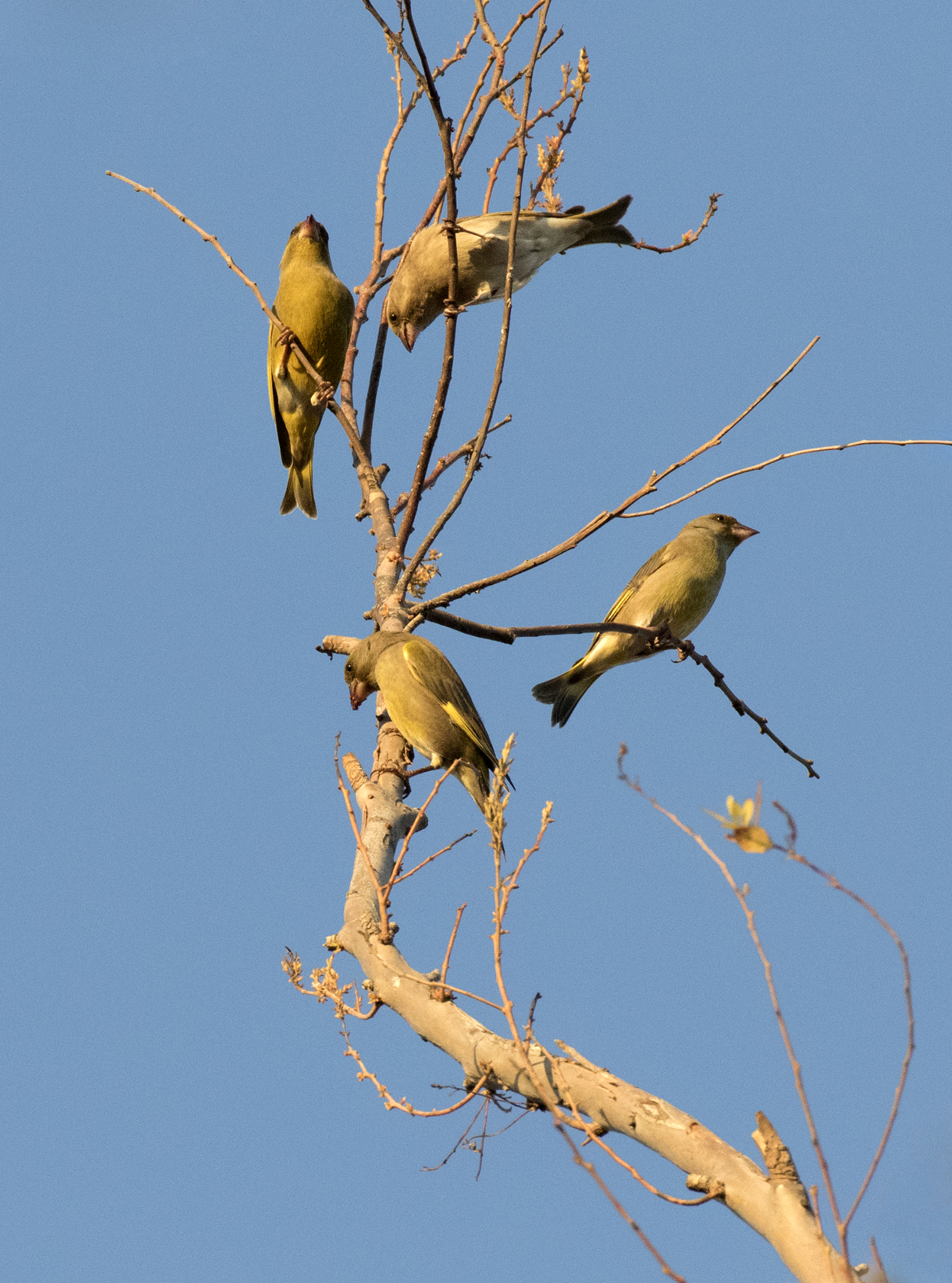 A flock of European Greenfinch (Chloris chloris) at Çukurova University Campus in Balcalı - Sarıçam, Adana - Turkey.